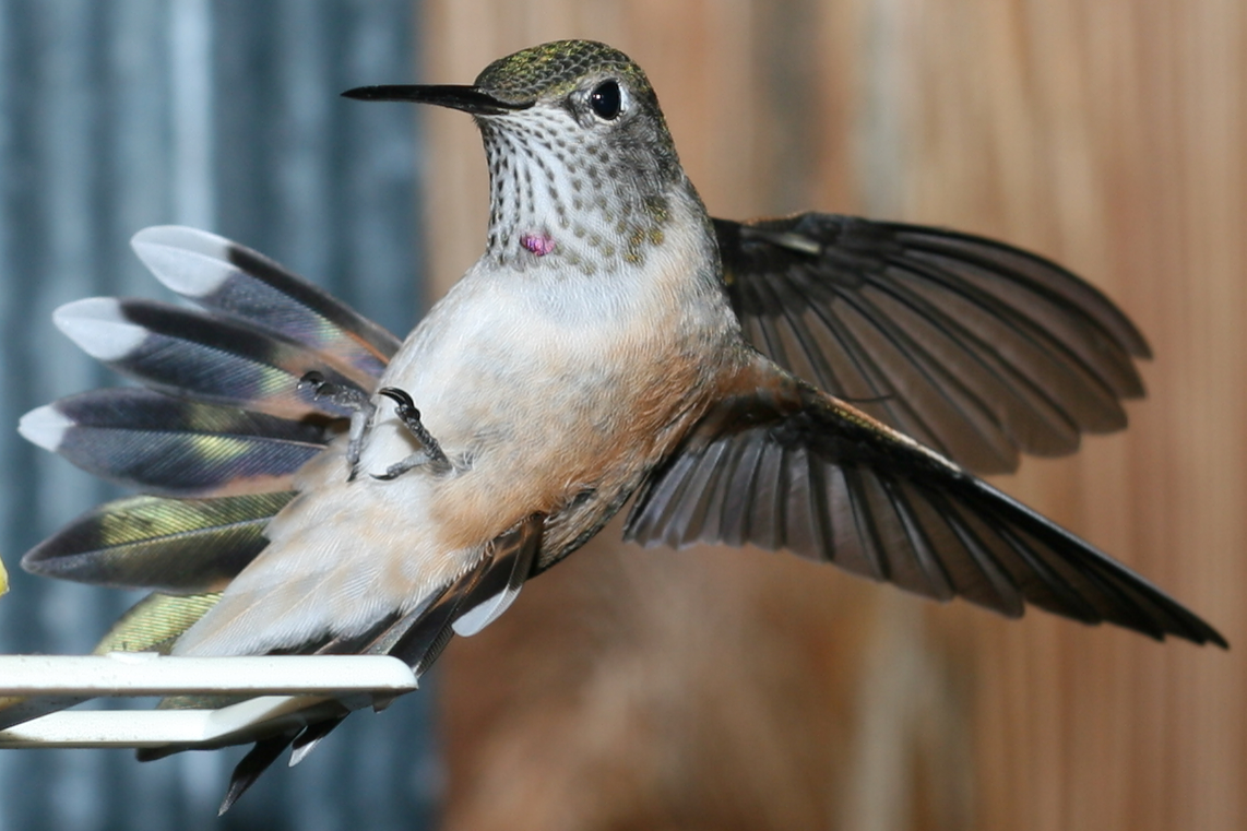 A juvenile male Broad-tailed hummingbird (Selasphorus platycercus) landing at an artificial feeder